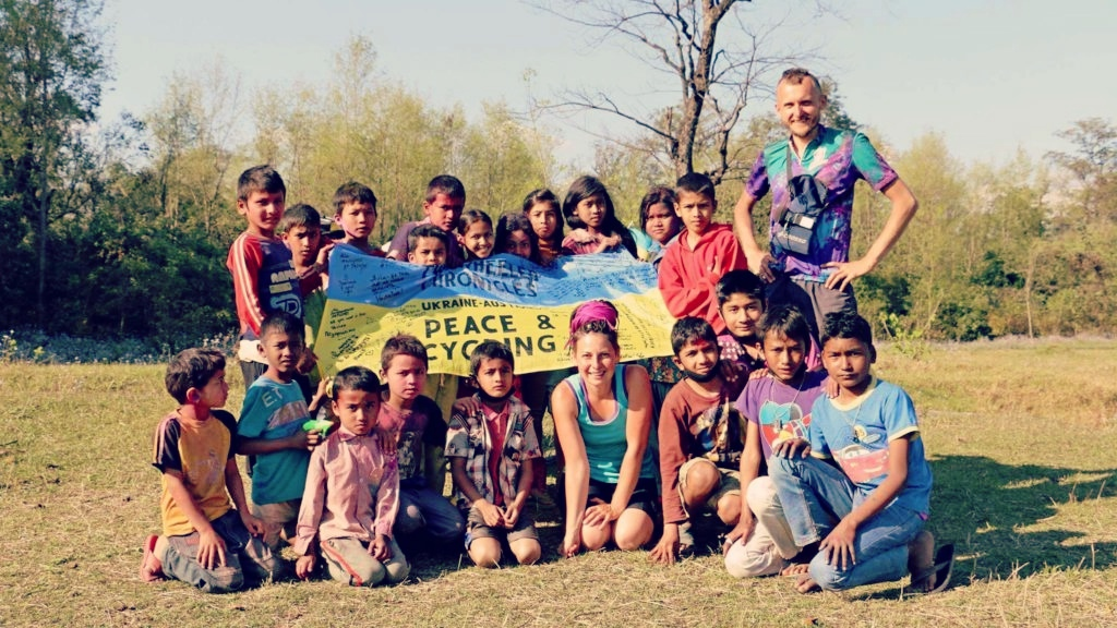 Folknery in Nepal